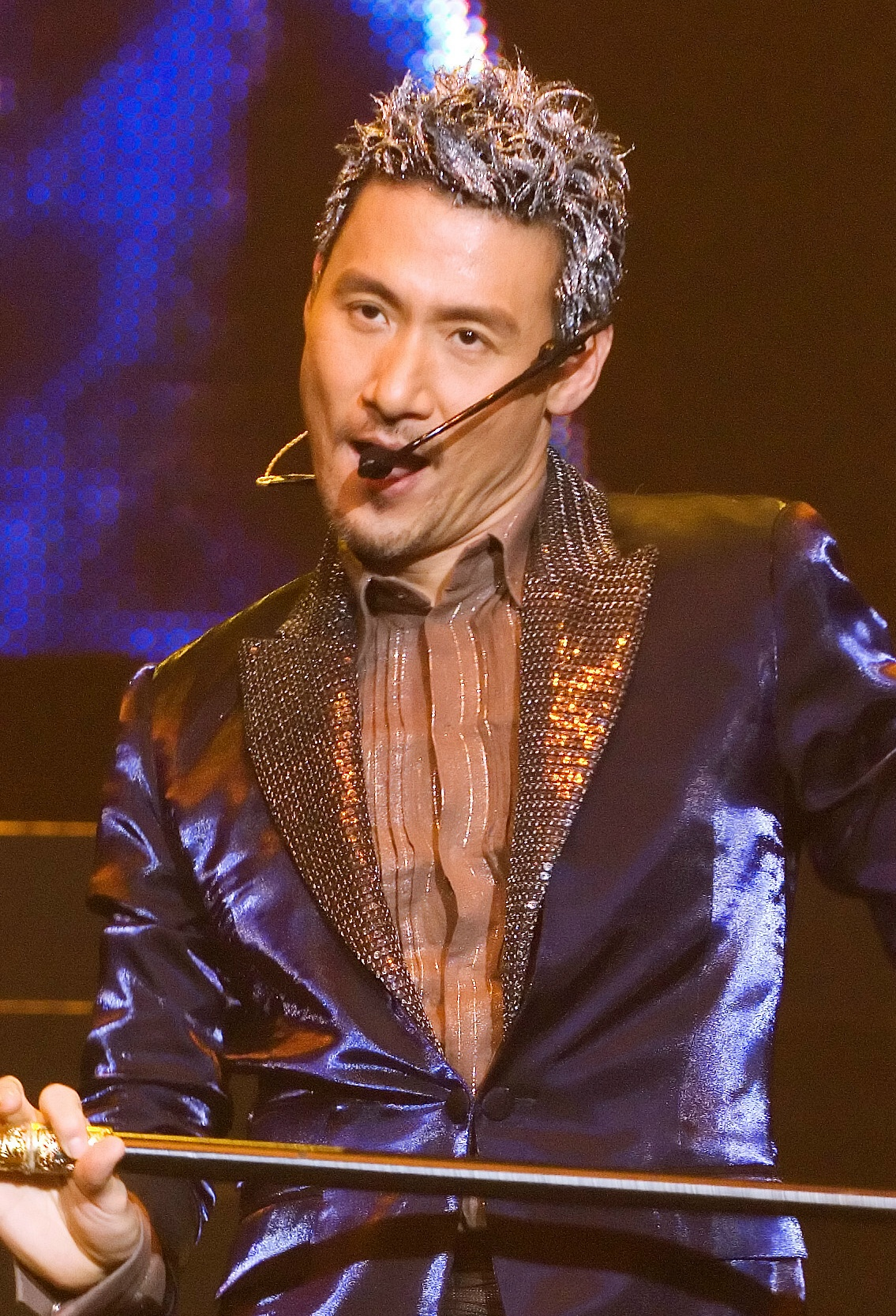 Jacky CheungBân-lâm-gú: Tiunn Ha̍k-iú. 張學友